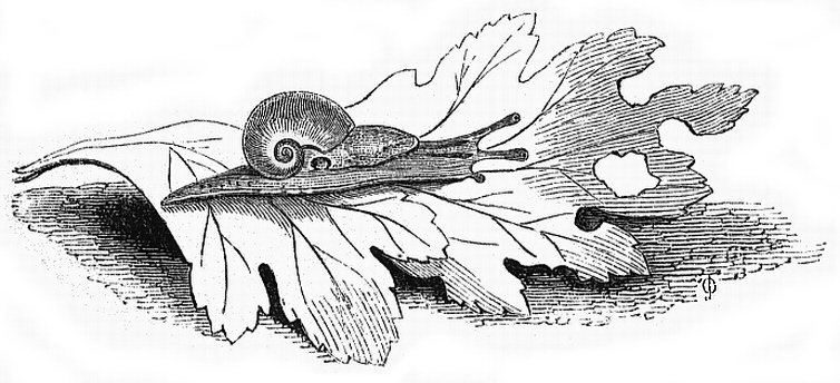 1863 engraving of Vitrina pellucida by Orlando Jewitt